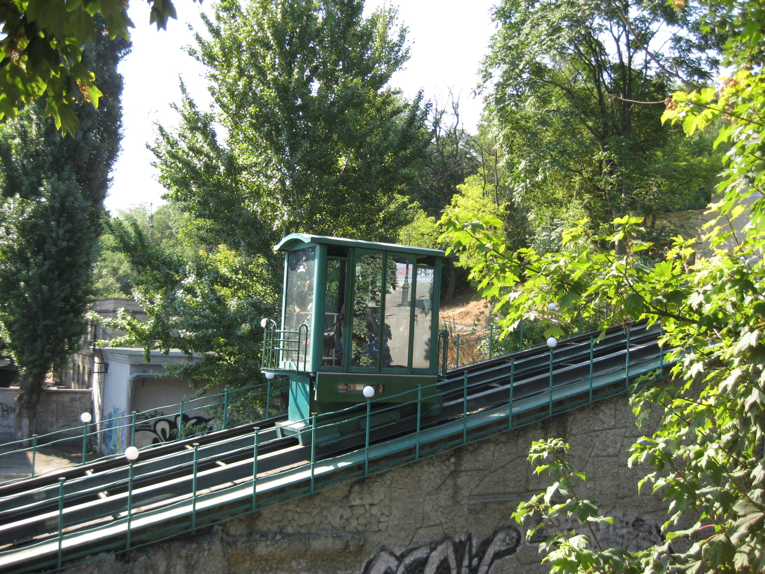 Potjomkin Funicular, Odessa, Ukraine